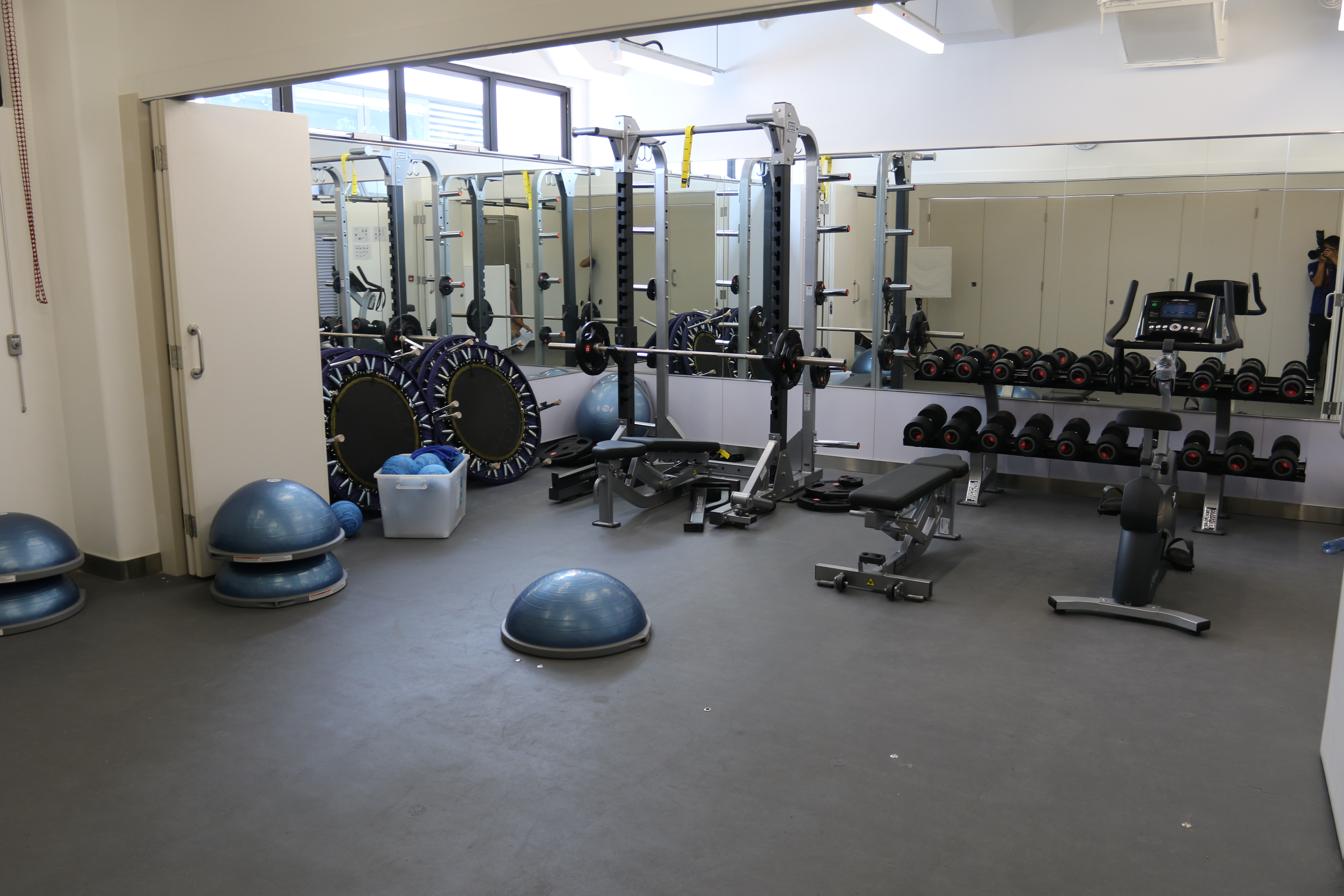 gymroom